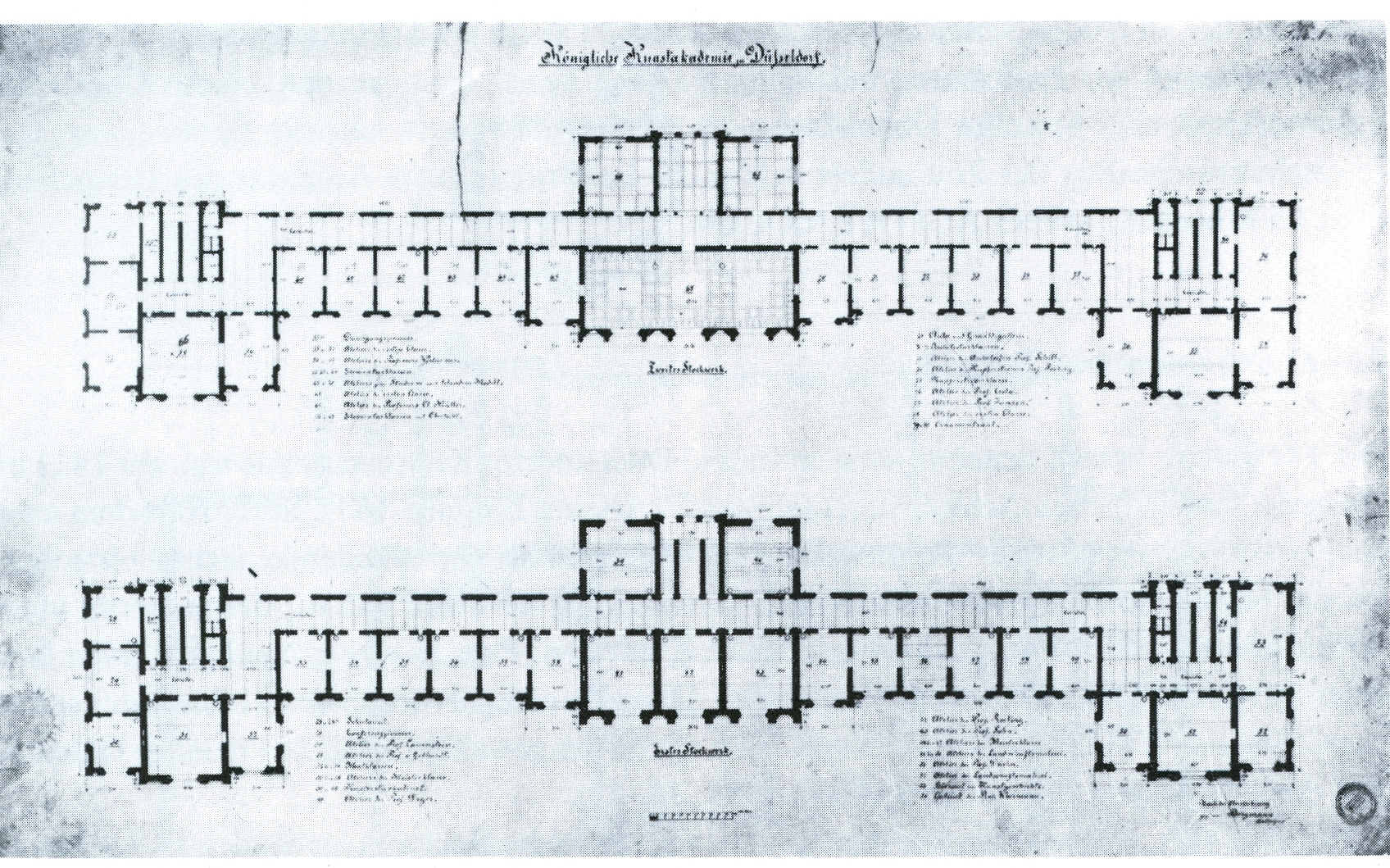 t